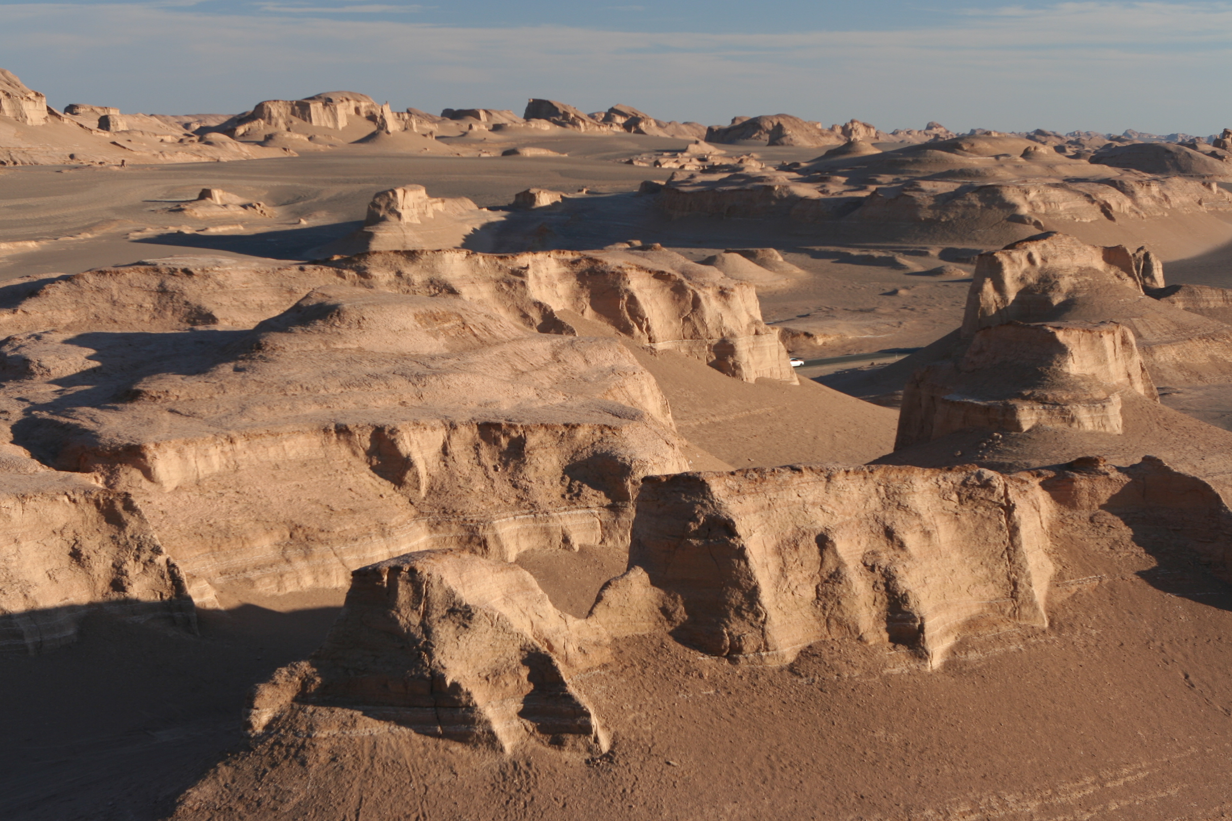 The Lut Desert in Kerman Province, Iran